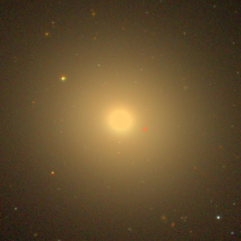 Angle of view: 4' × 4' (0.3" per pixel), north is up.